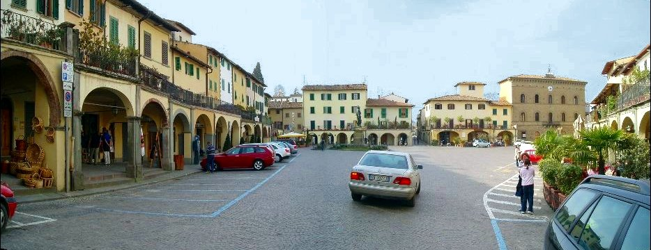 Panoramic photo of the Market place in Greve in Chianti, Tuscany, Italy.